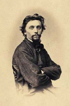 Carl Bloch (1834–1890), Danish painter